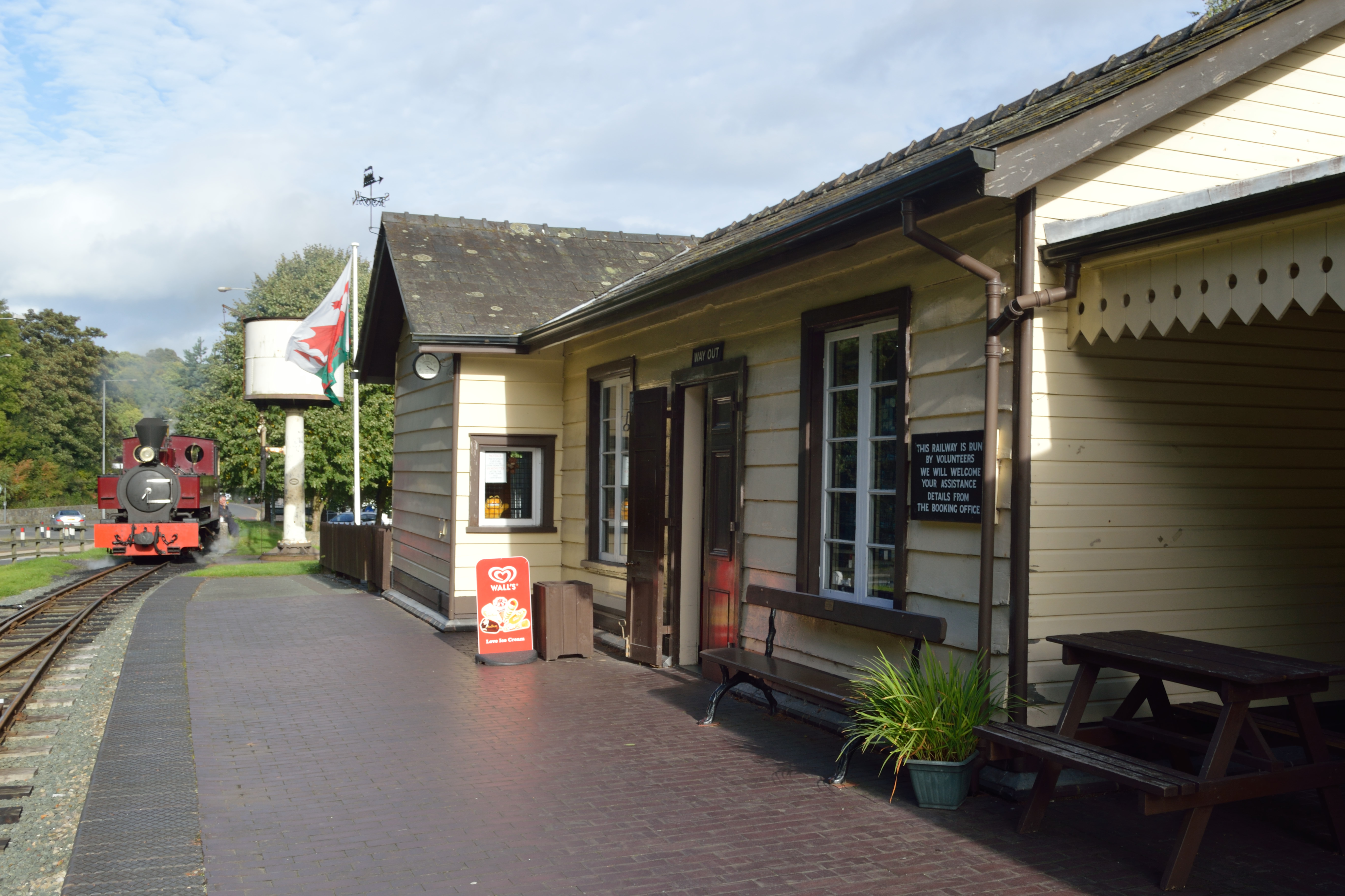 Welshpool Raven Square railway station platform and main building, with Welshpool and Llanfair Light Railway No. 12, Joan, in background.